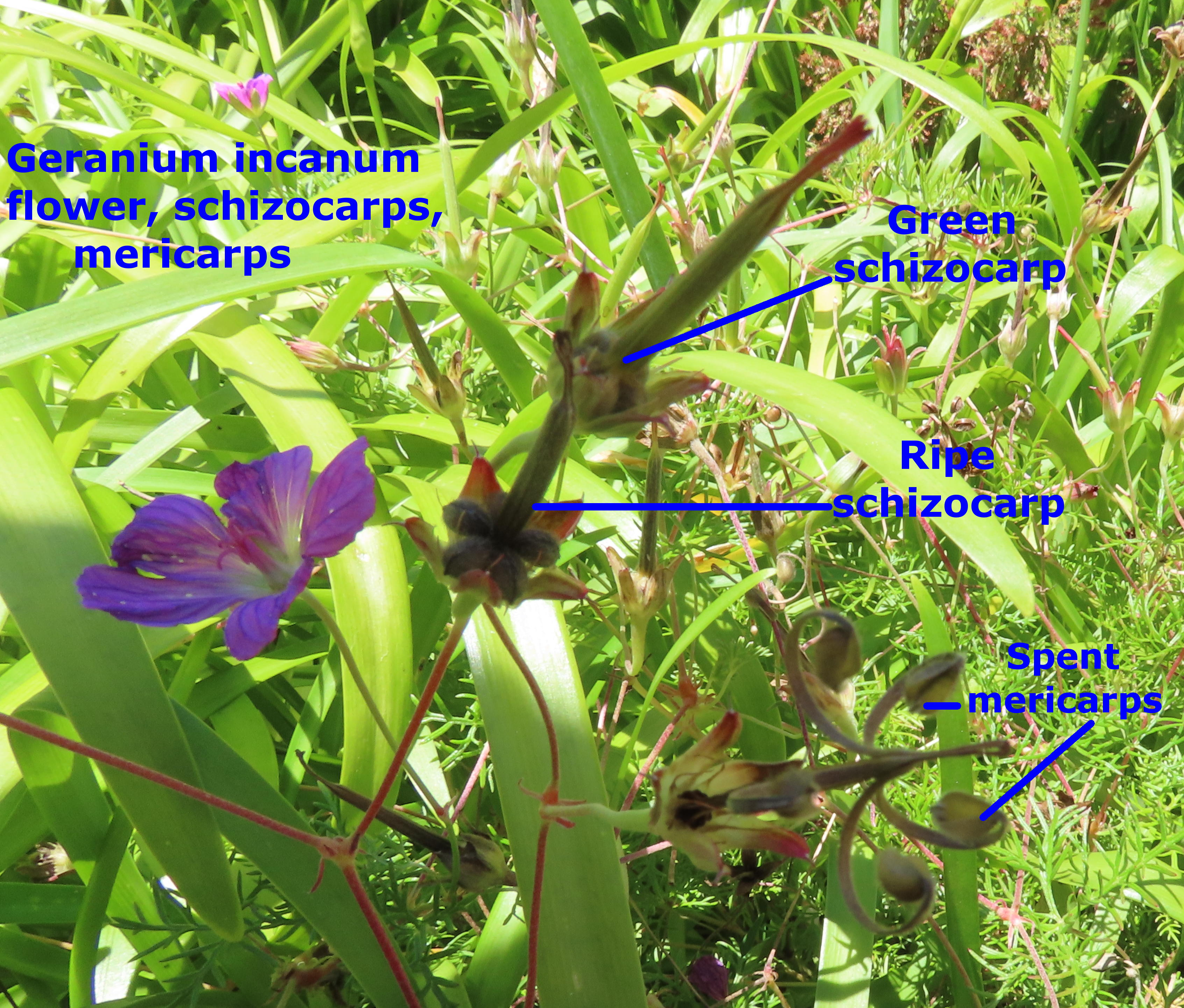 Geranium incanum schizocarps and mericarps at various degrees of ripeness